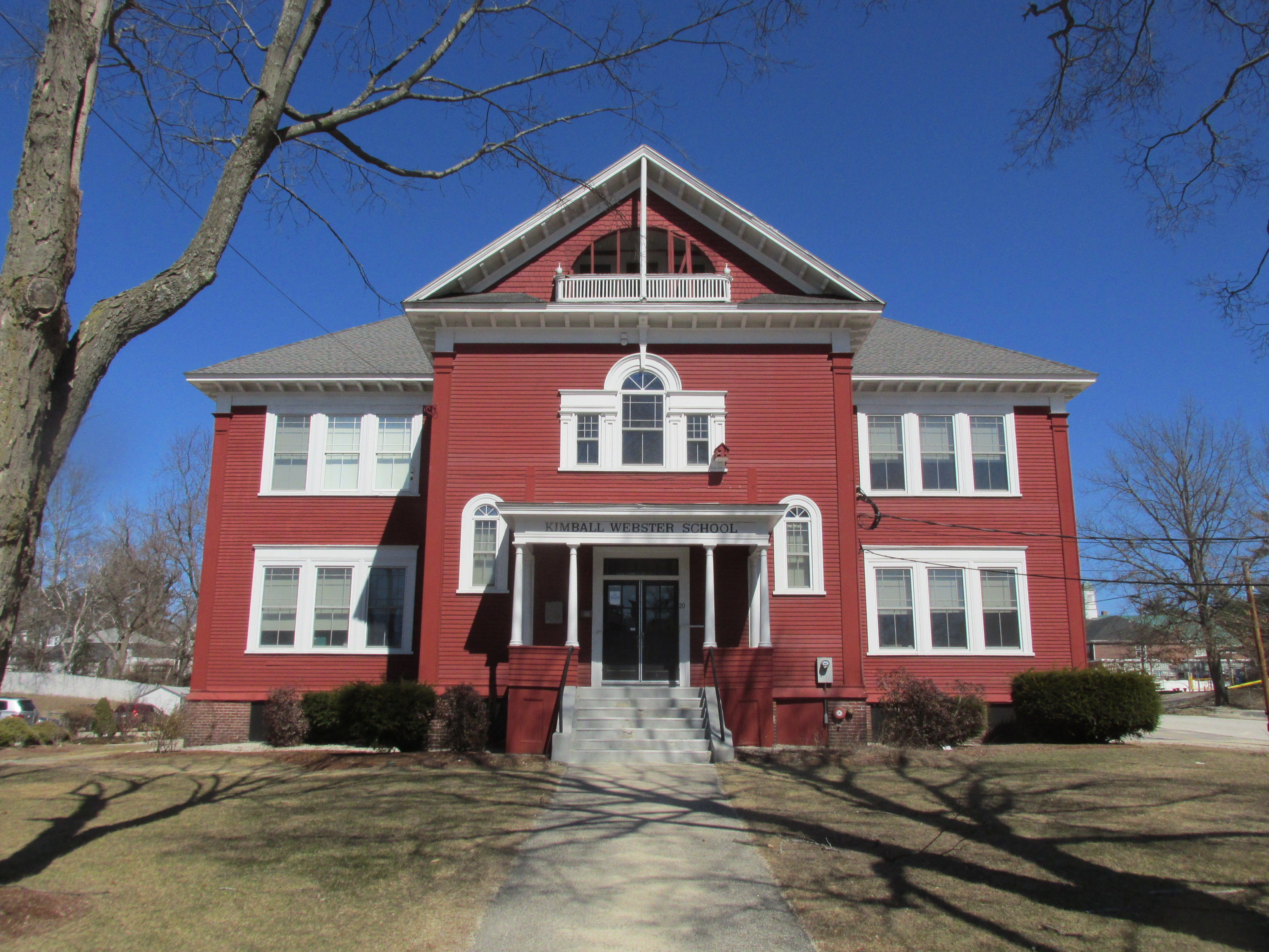 Kimball Webster School, Hudson New Hampshire - 2014